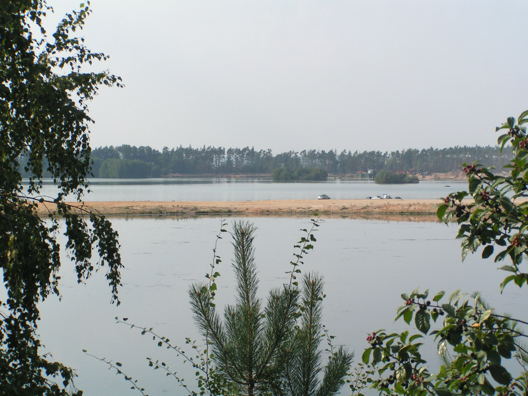 Pamětník sand mine in Štít near Klamoš, Hradec Králové District, Czech Republic. Area about 100 ha, annual output 250,000 t of sand.